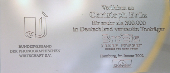 Platinum certification in Germany for Christoph Brüx